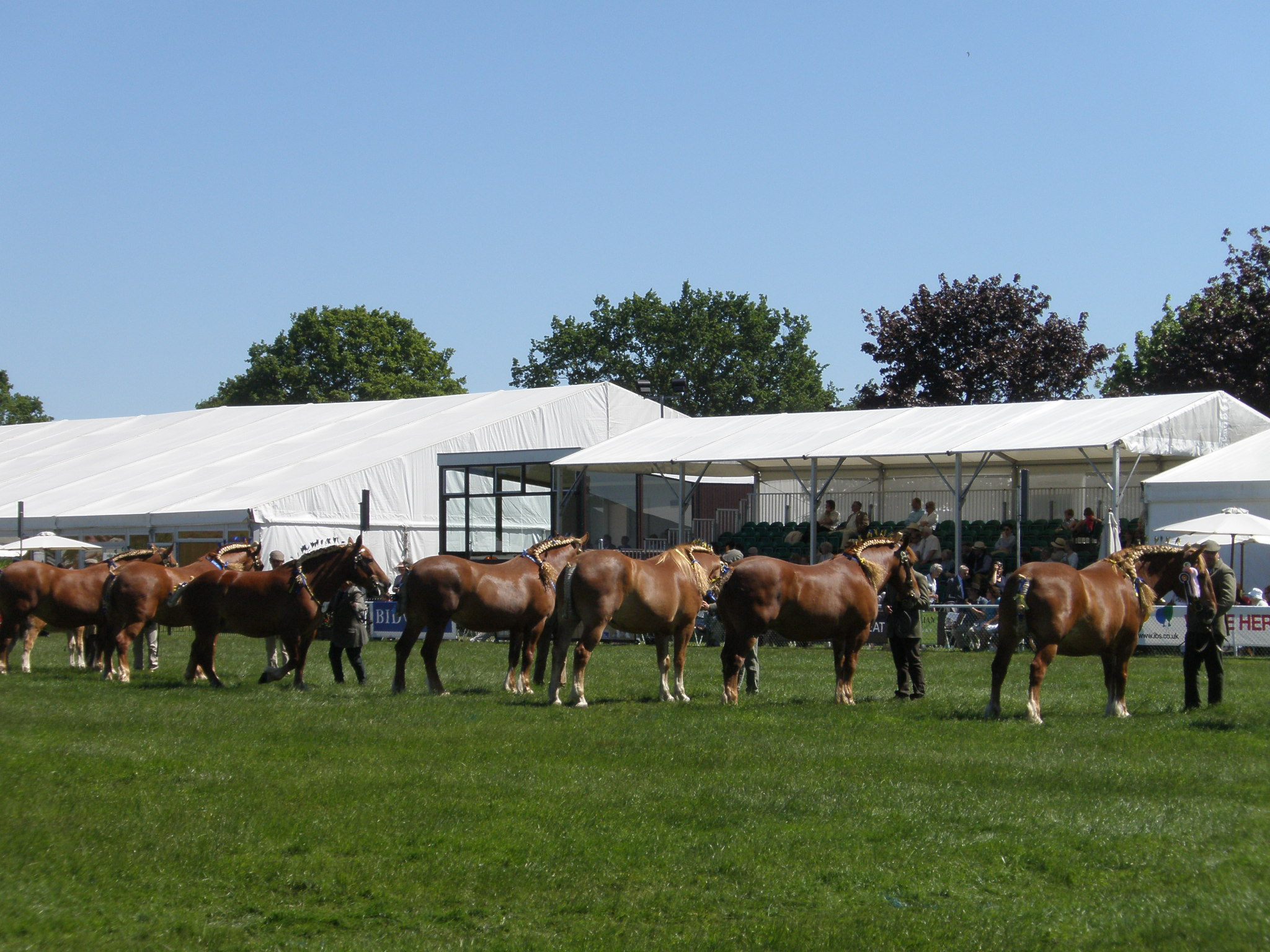 Grand Parade. Suffolk horses